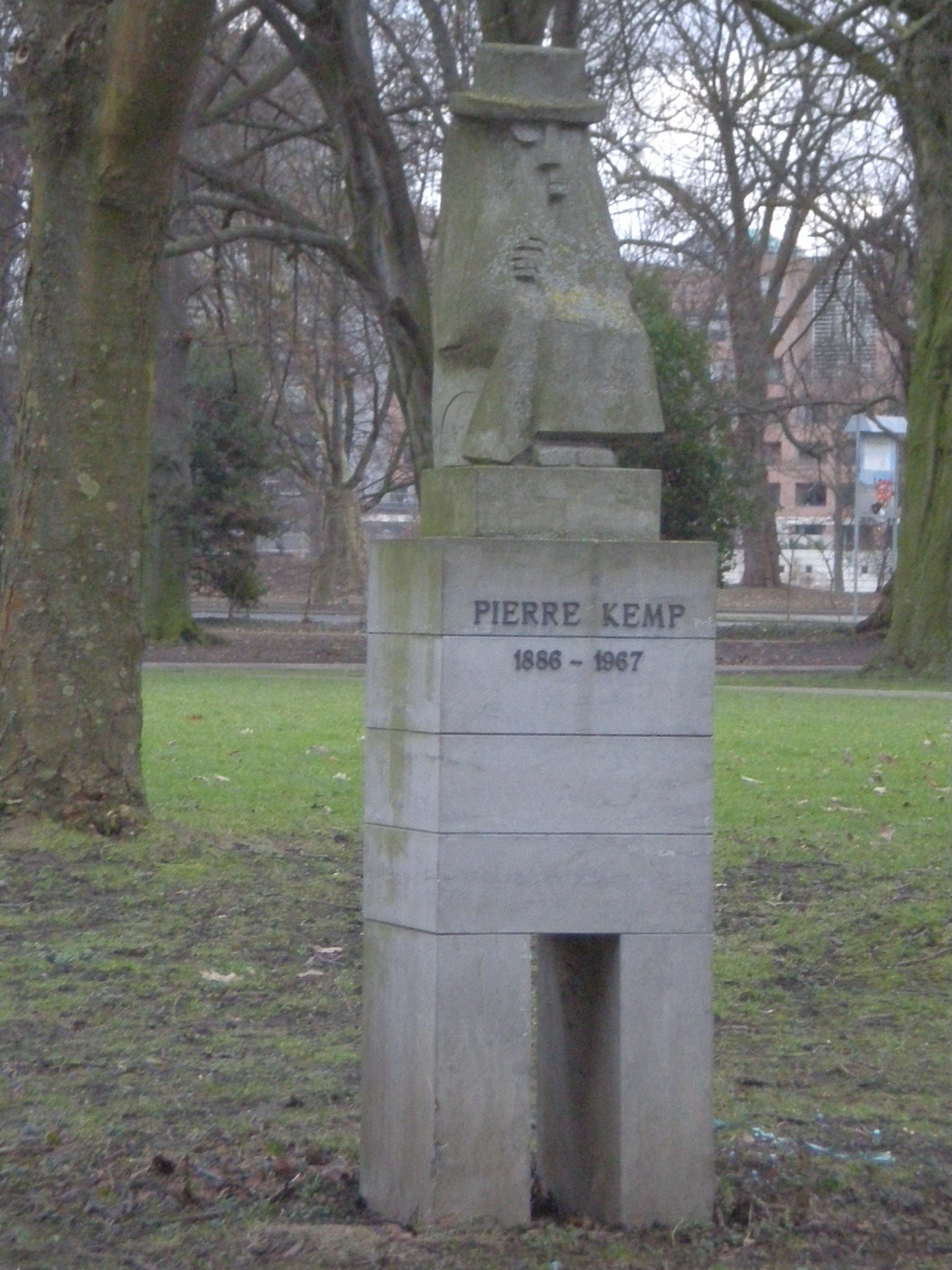 Statue of Dutch writer Pierre Kemp